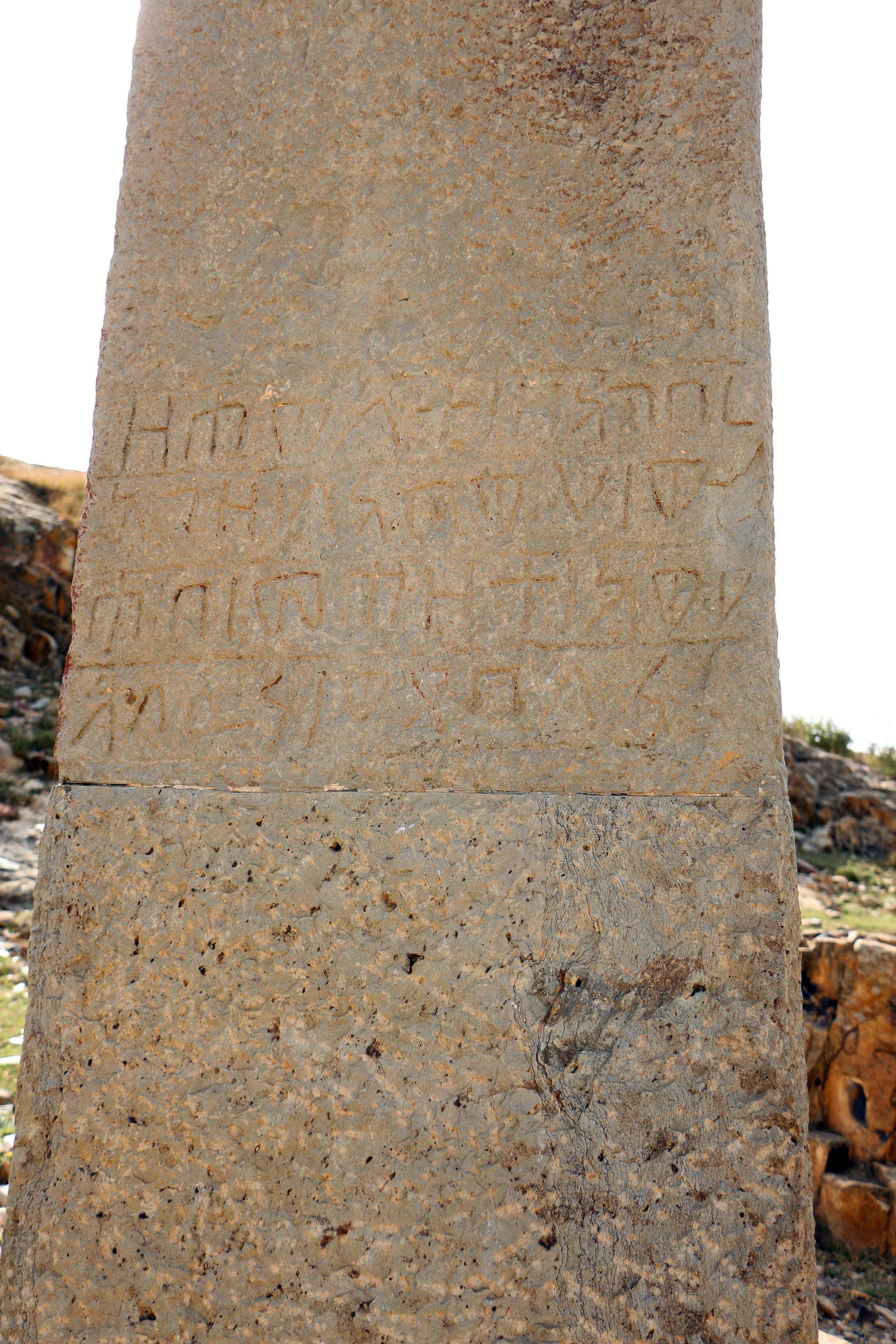 Balaw Kalaw - Menhir